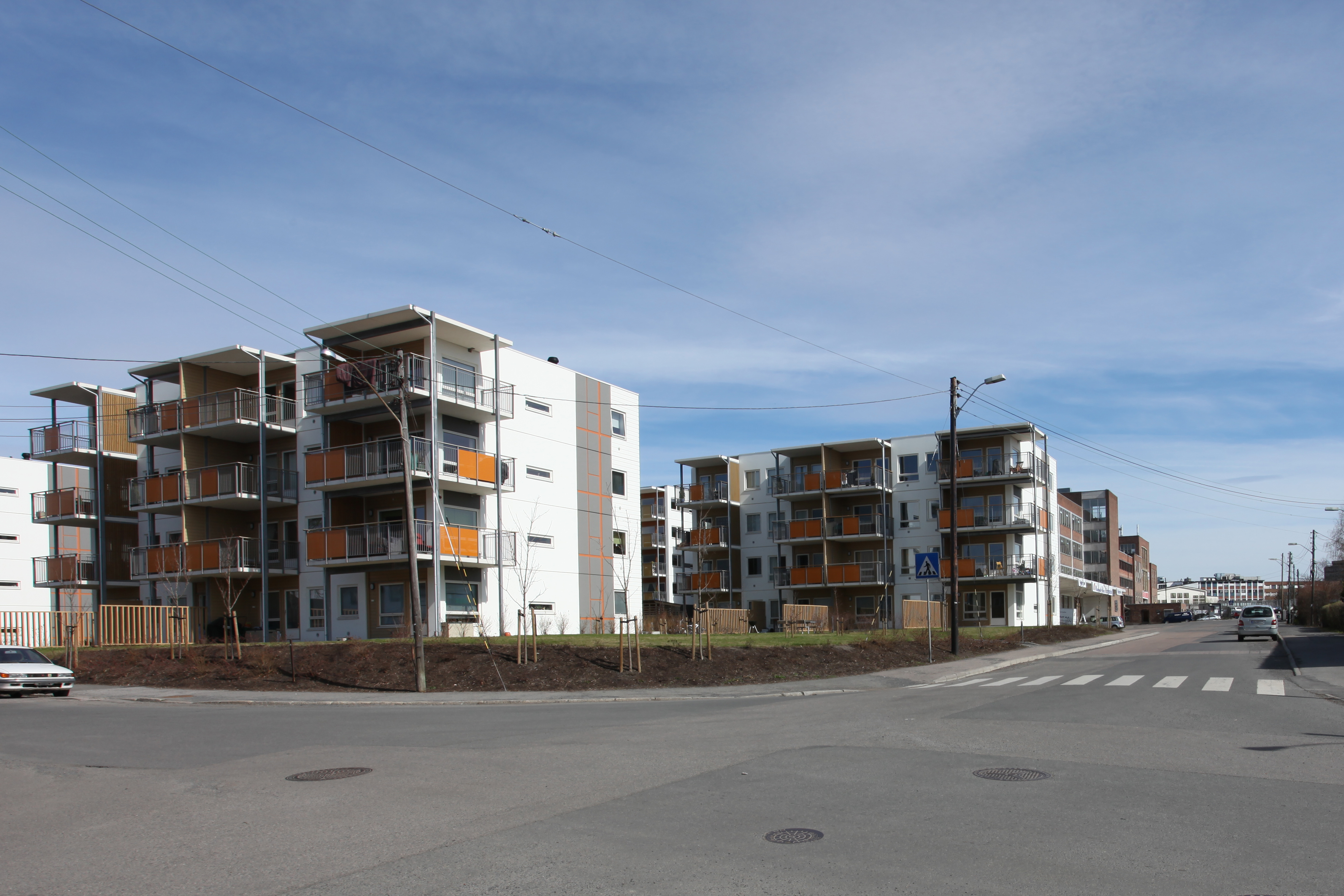 Picture of Frydenbergveien (Oslo - Norway)